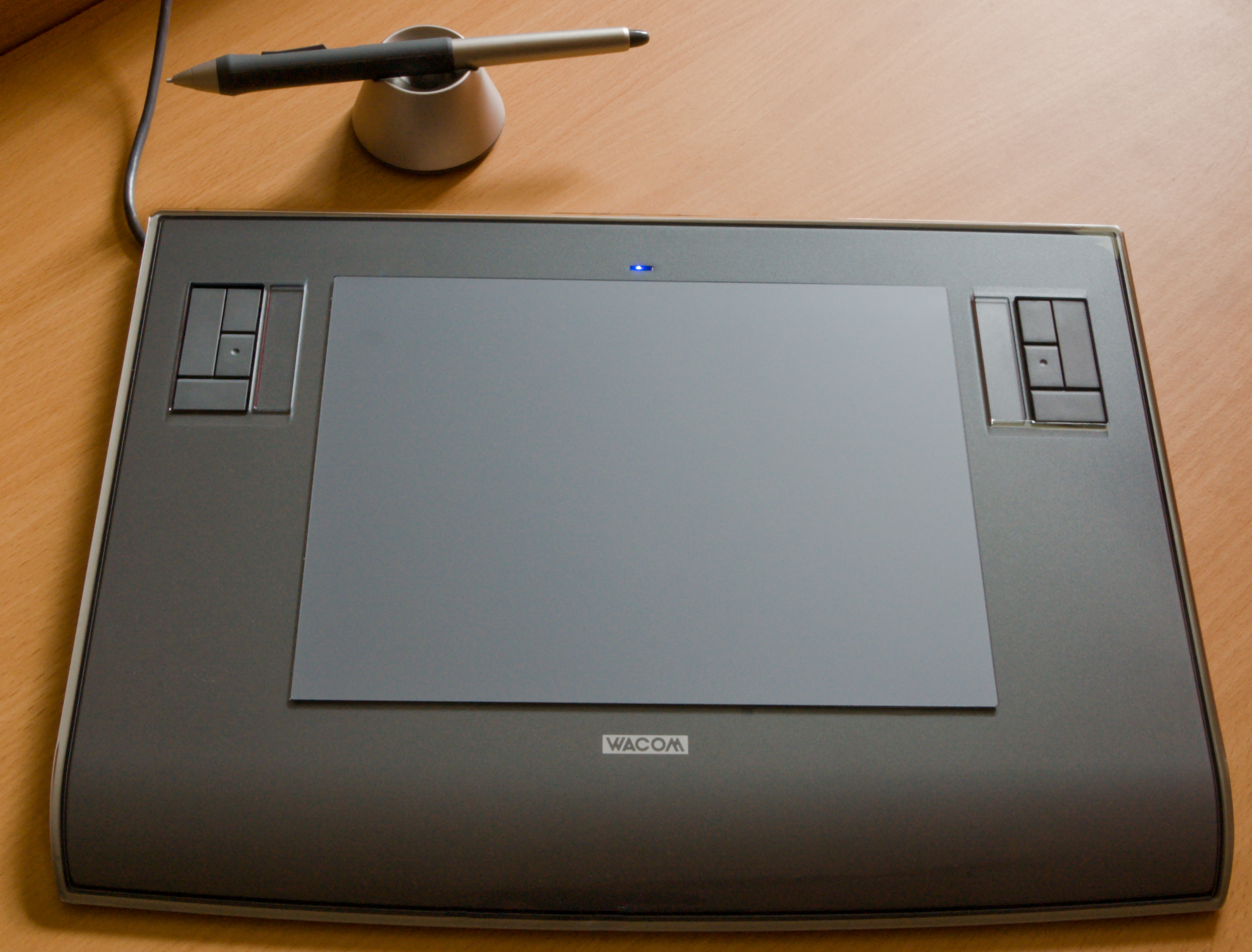 The graphics tablet Intuos3 by Wacom